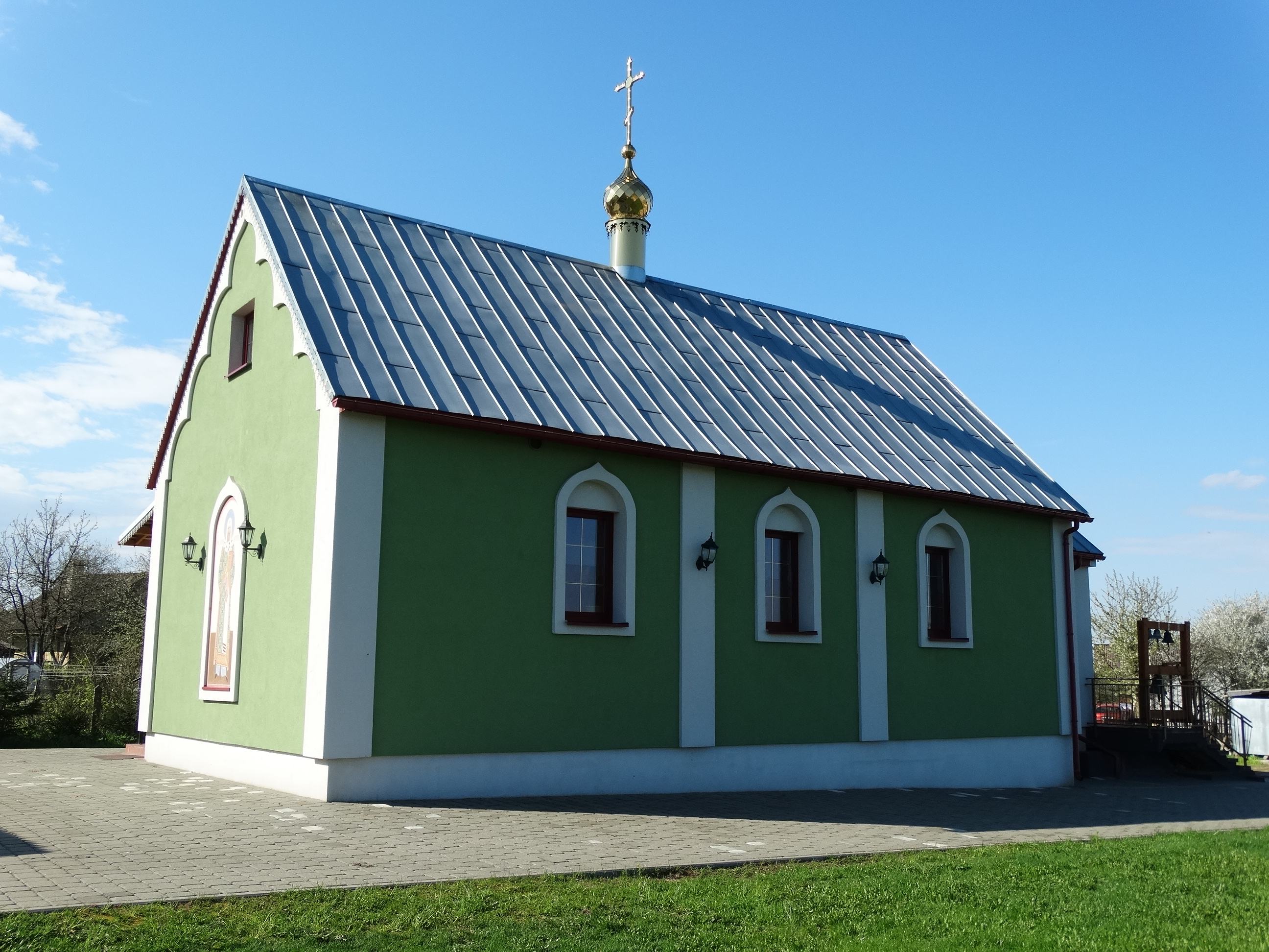 Orthodox Church, Šalčininkai, Lithuania